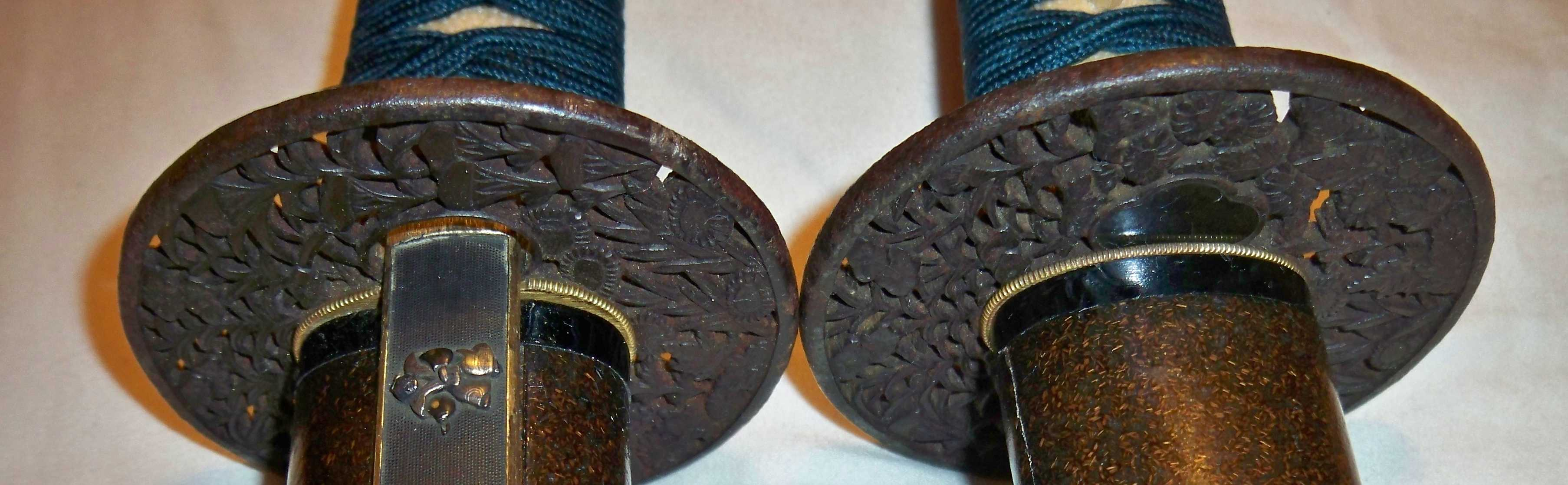 Antique Japanese (samurai) daisho tsuba.